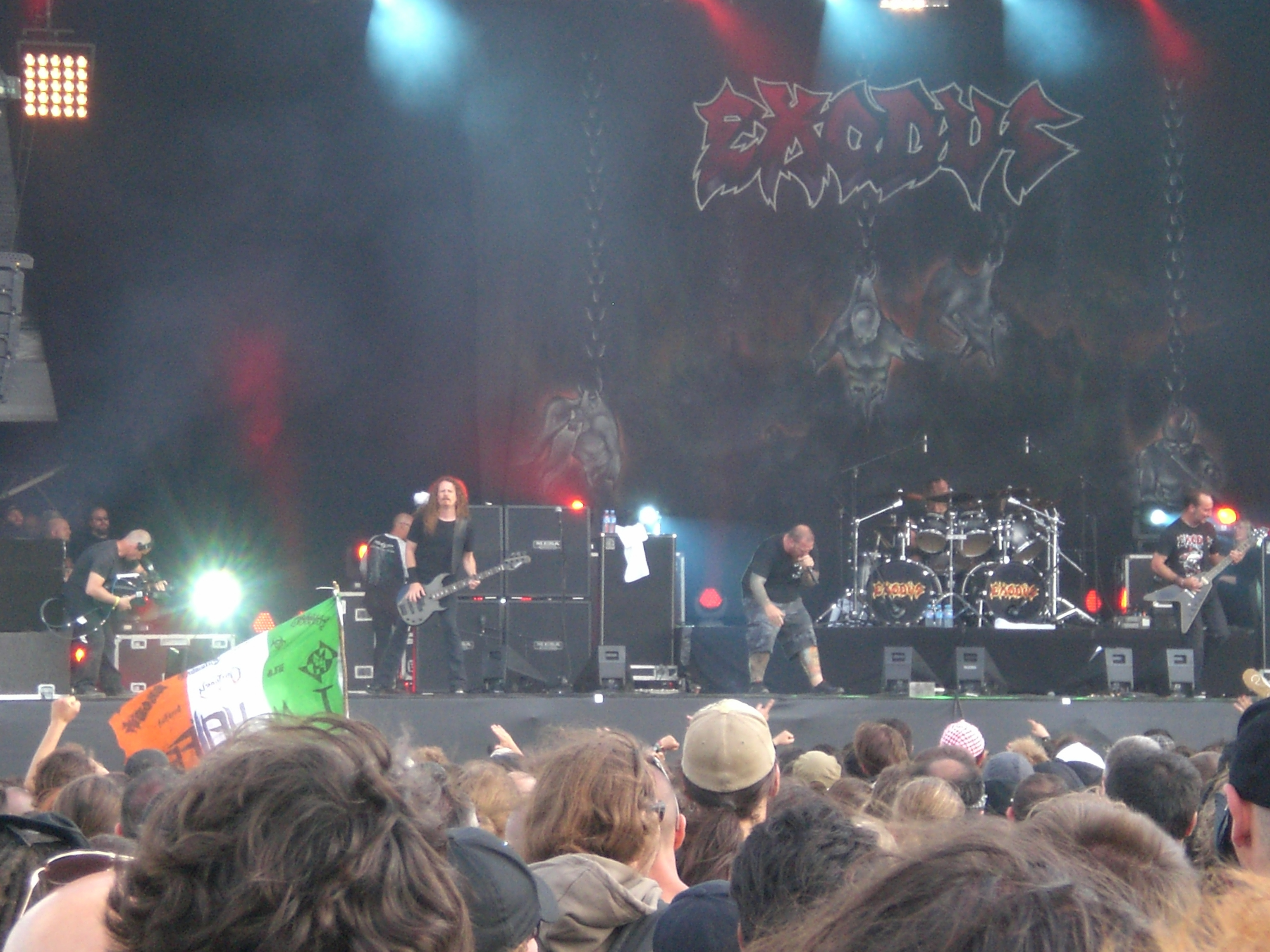 Exodus (band) at 2012 Hellfest (French music festival)